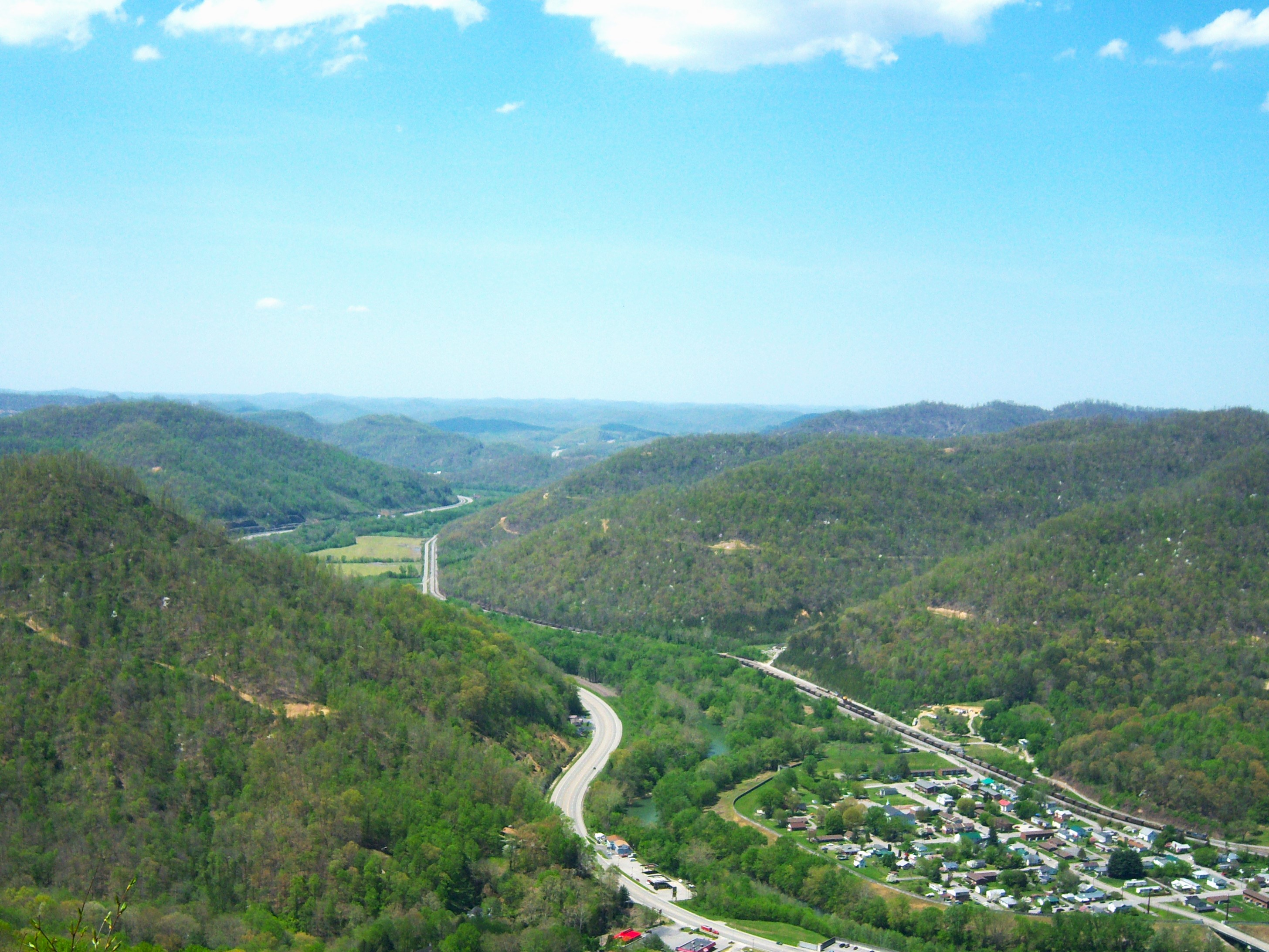 View from Pine Mountain State Resort Park.